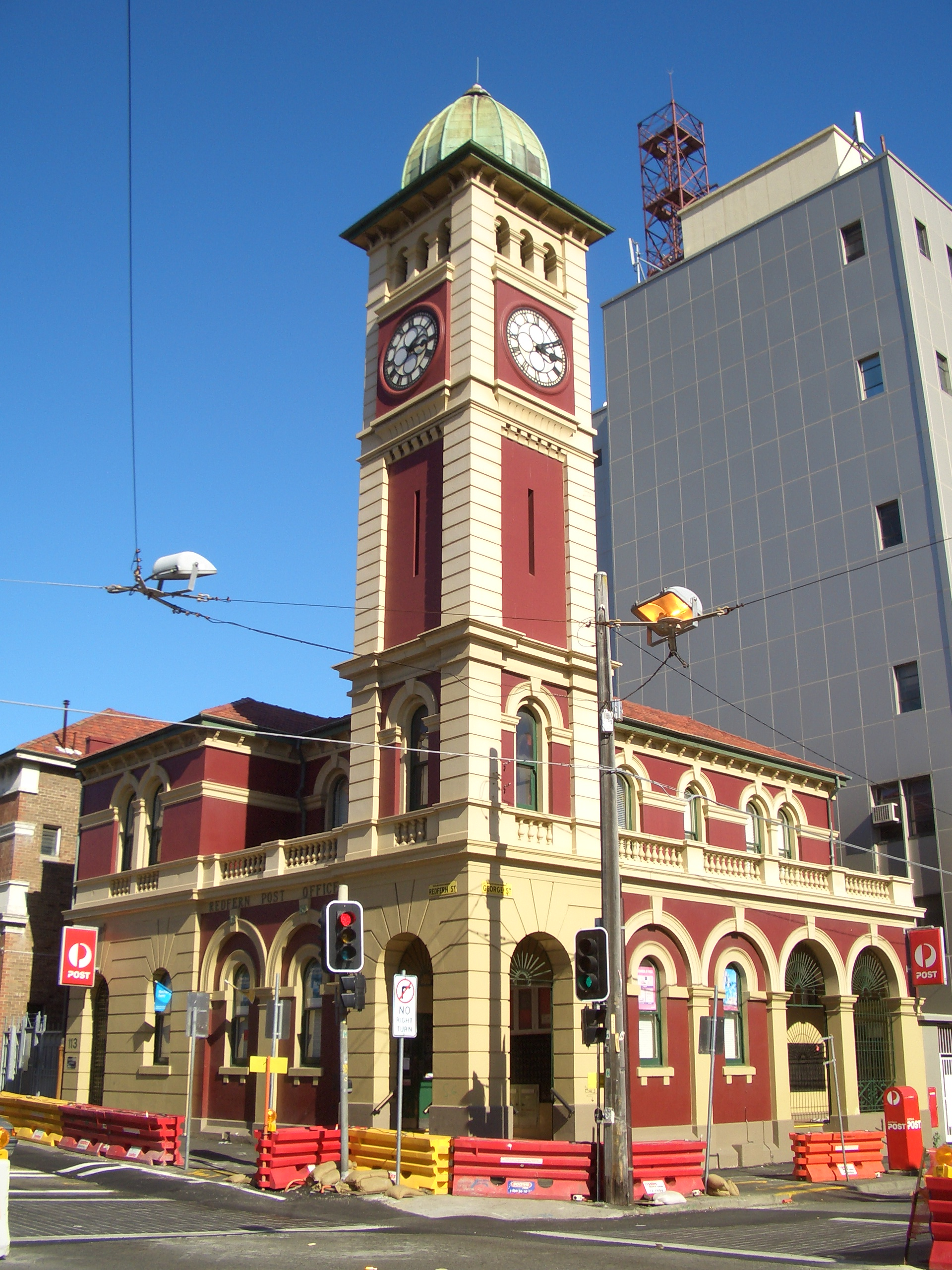 Redfern Post Office